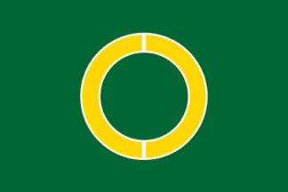 Flag of Itakura Gunma